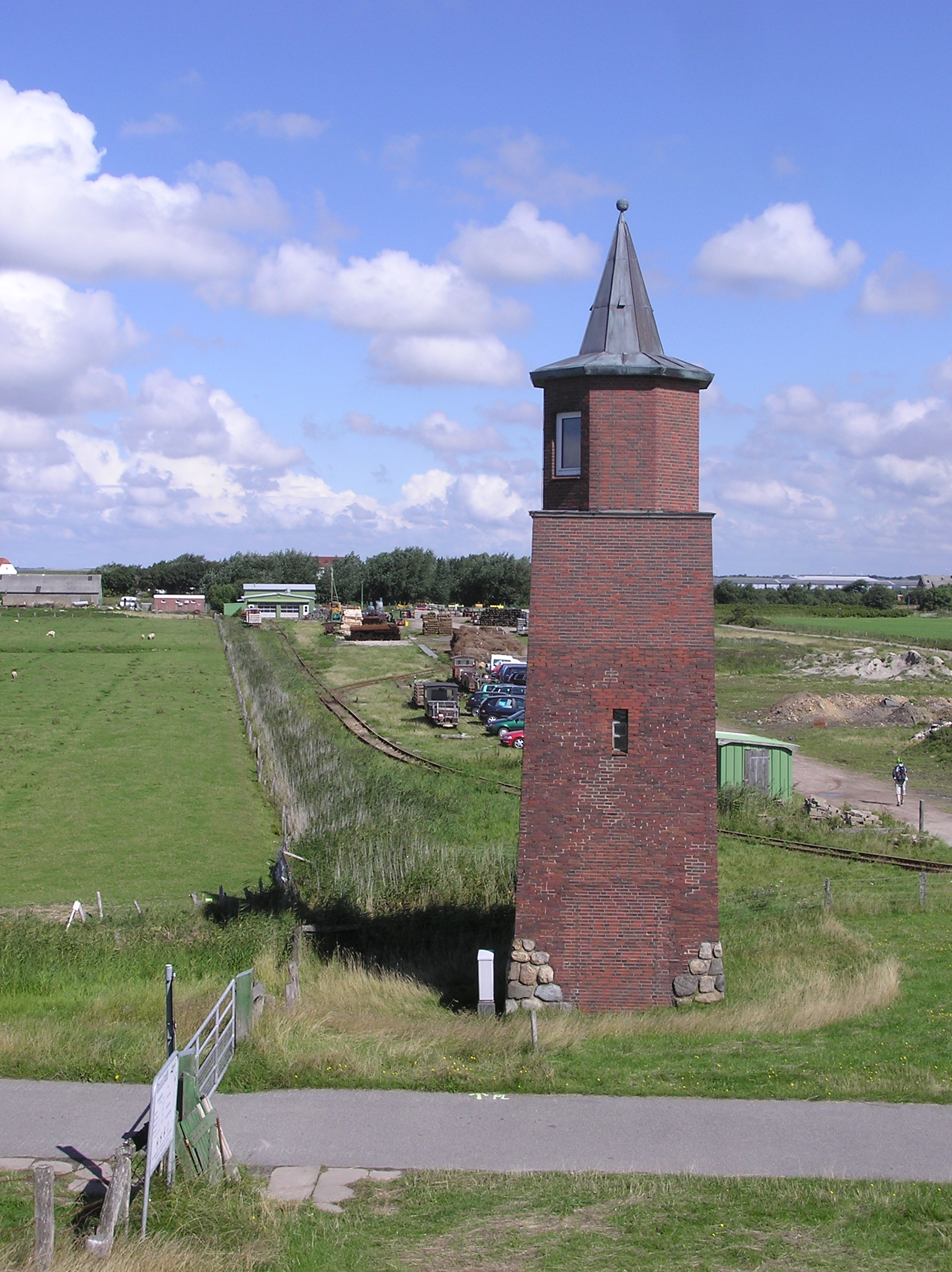 Old lighthouse (retired) at Dagebüll, Nordfriesland, Germany. Shows also the depot of the lorry rail to Oland.